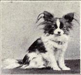 Papillon from 1915